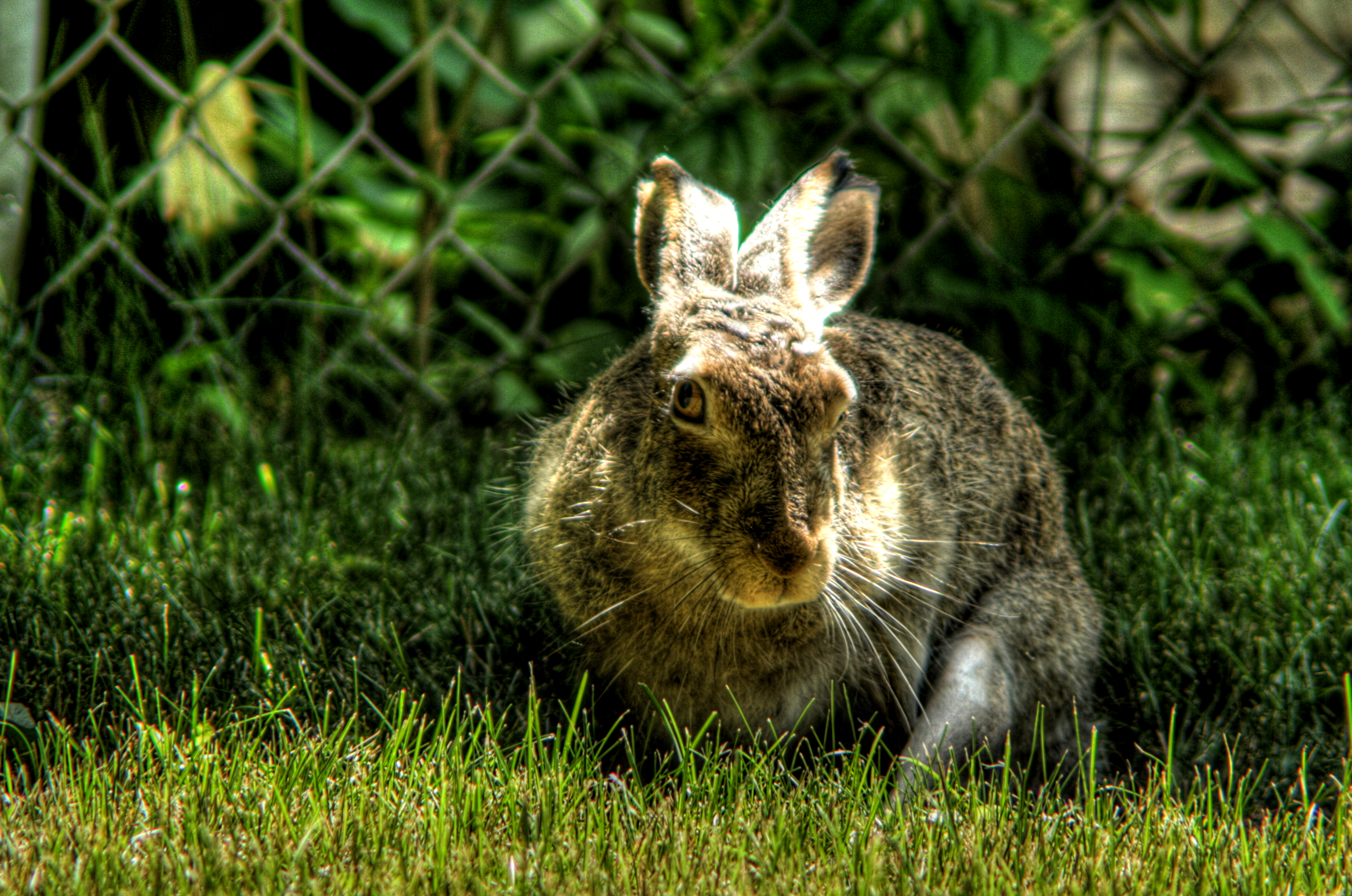 Wild hare doe in city yard, Edmonton, Alberta, Canada.